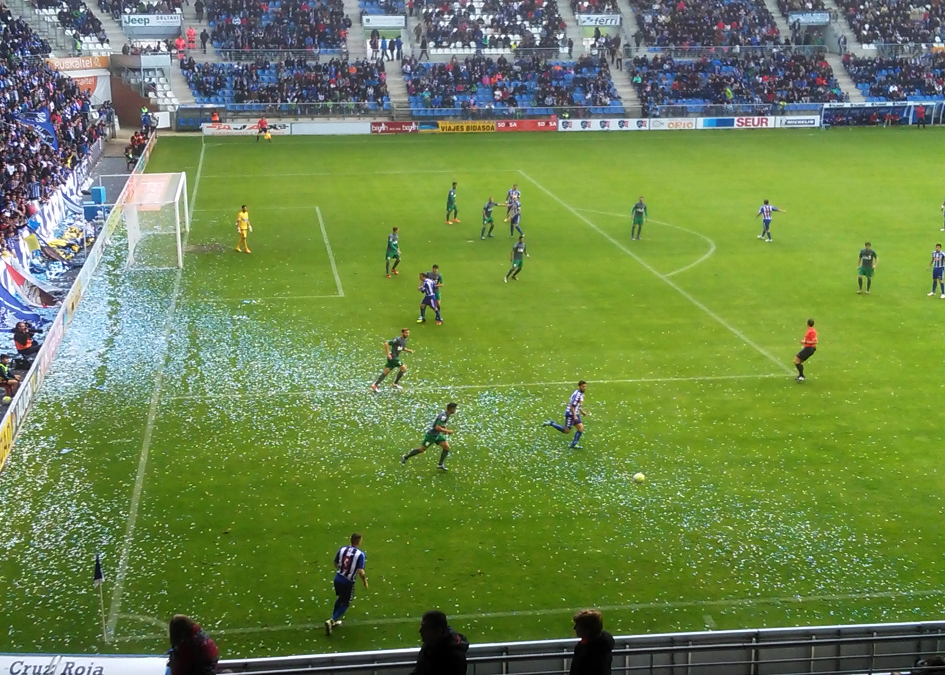 2016-5-22 Alaves 2-0 Ponferradina